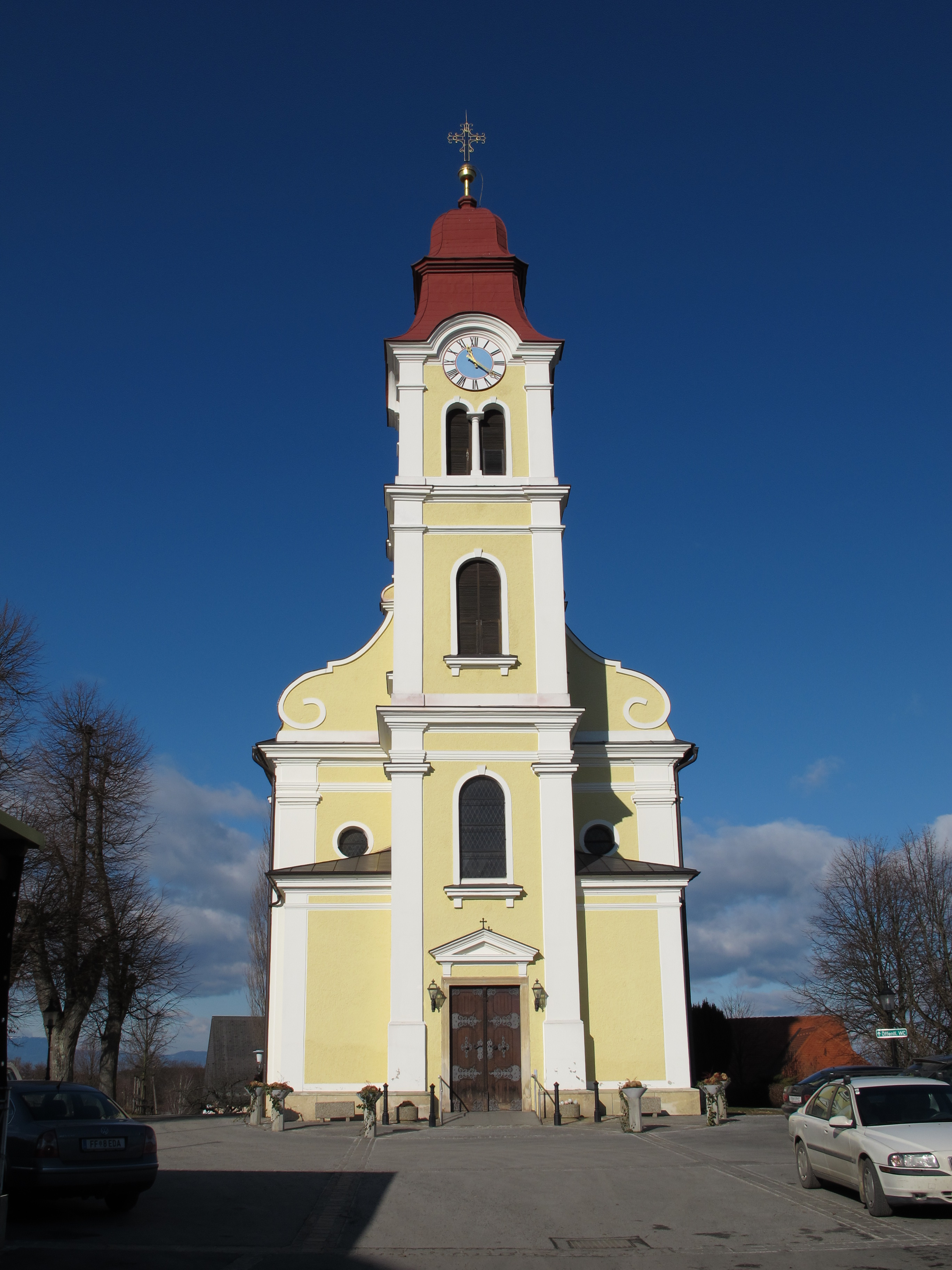 Pfarrkirche Eichkögl